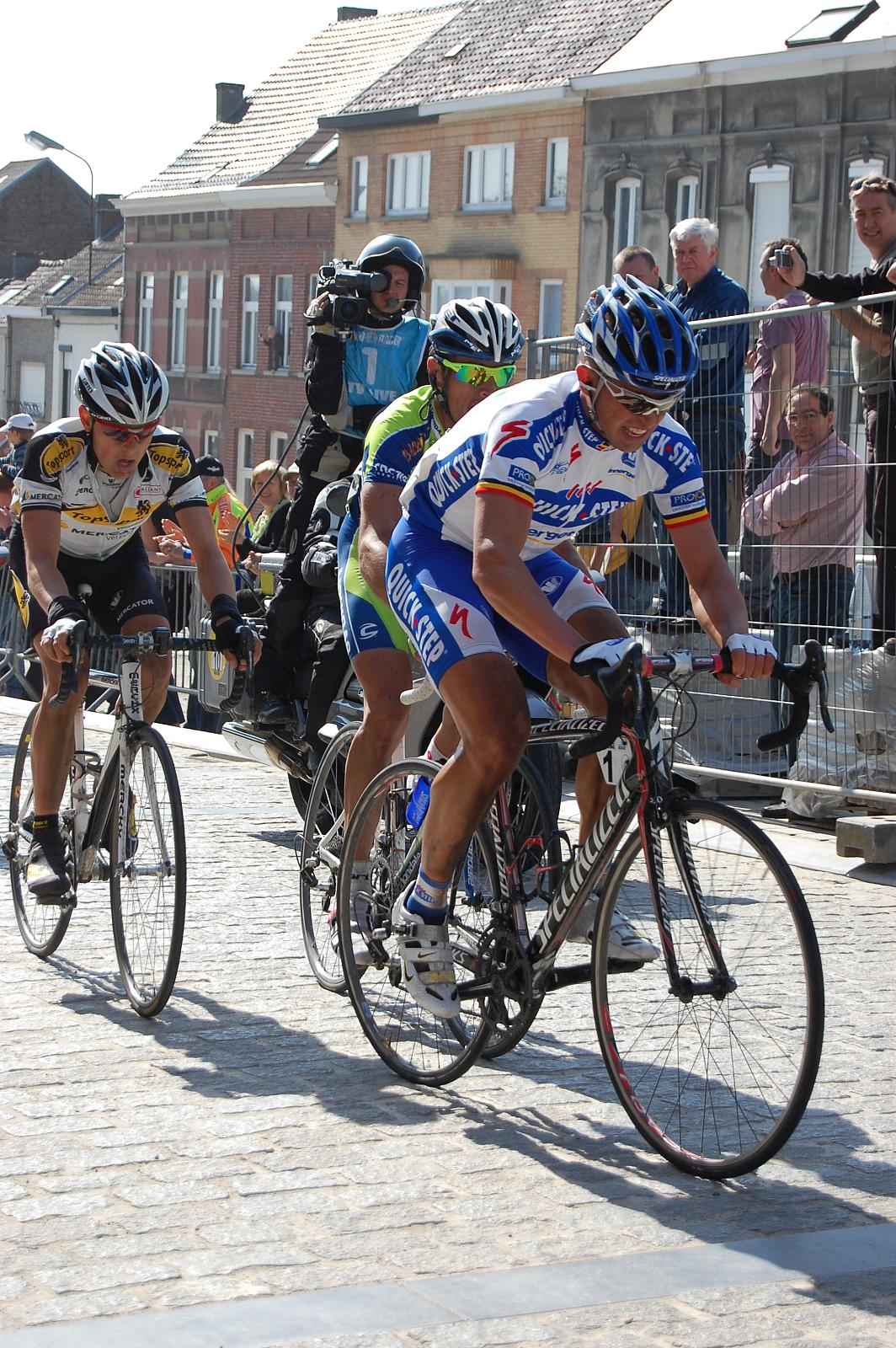 Tour of Flanders 2009. Stijn Devolder, winner of the Tour of Flanders 2008 with Manuel Quinziato (Liquigas) and Preben Van Hecke (Topsport Vlaanderen) at the Vesten in Geraardsbergen.